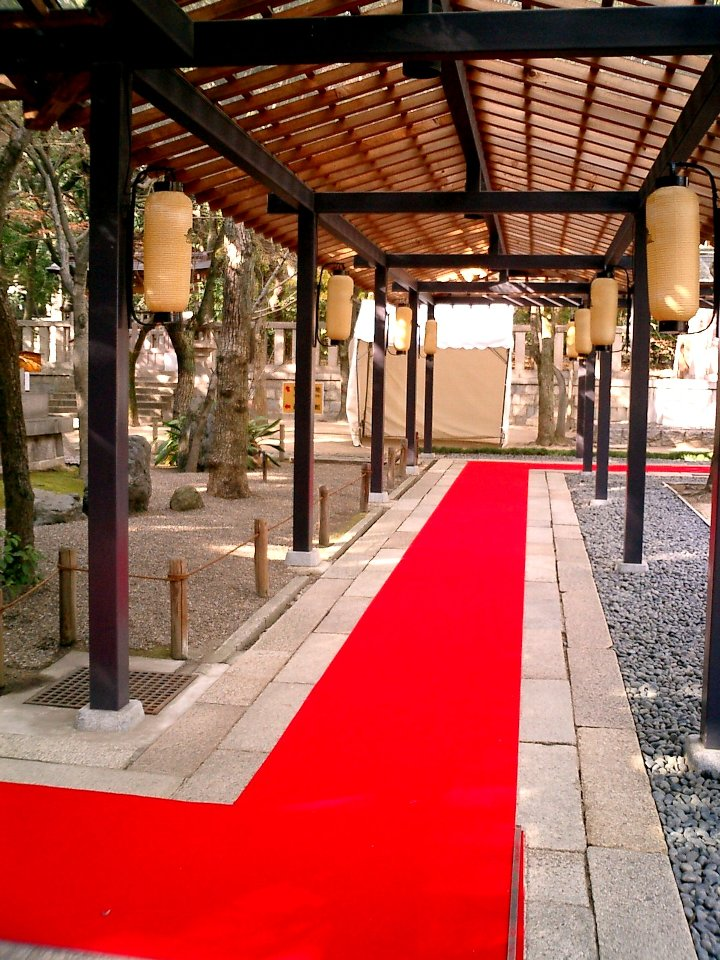 red carpet